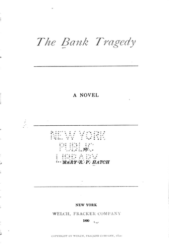 "The Bank Tragedy: A Novel", by Mary R. Platt Hatch